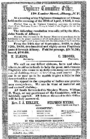 Resolution of the Vigilance Committee commending Stephen Myers for his work in assisting escaping slaves via the Underground Railroad and calling on fellow citizens to do the same.